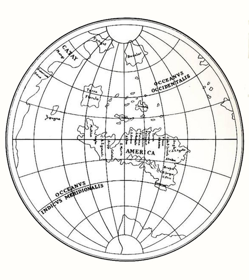 Leonardoś World map showing the name of America